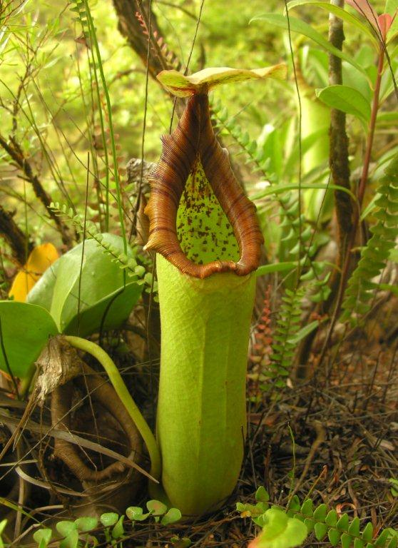 Nepenthes truncata pitcher, northern Mindanao at 230 m